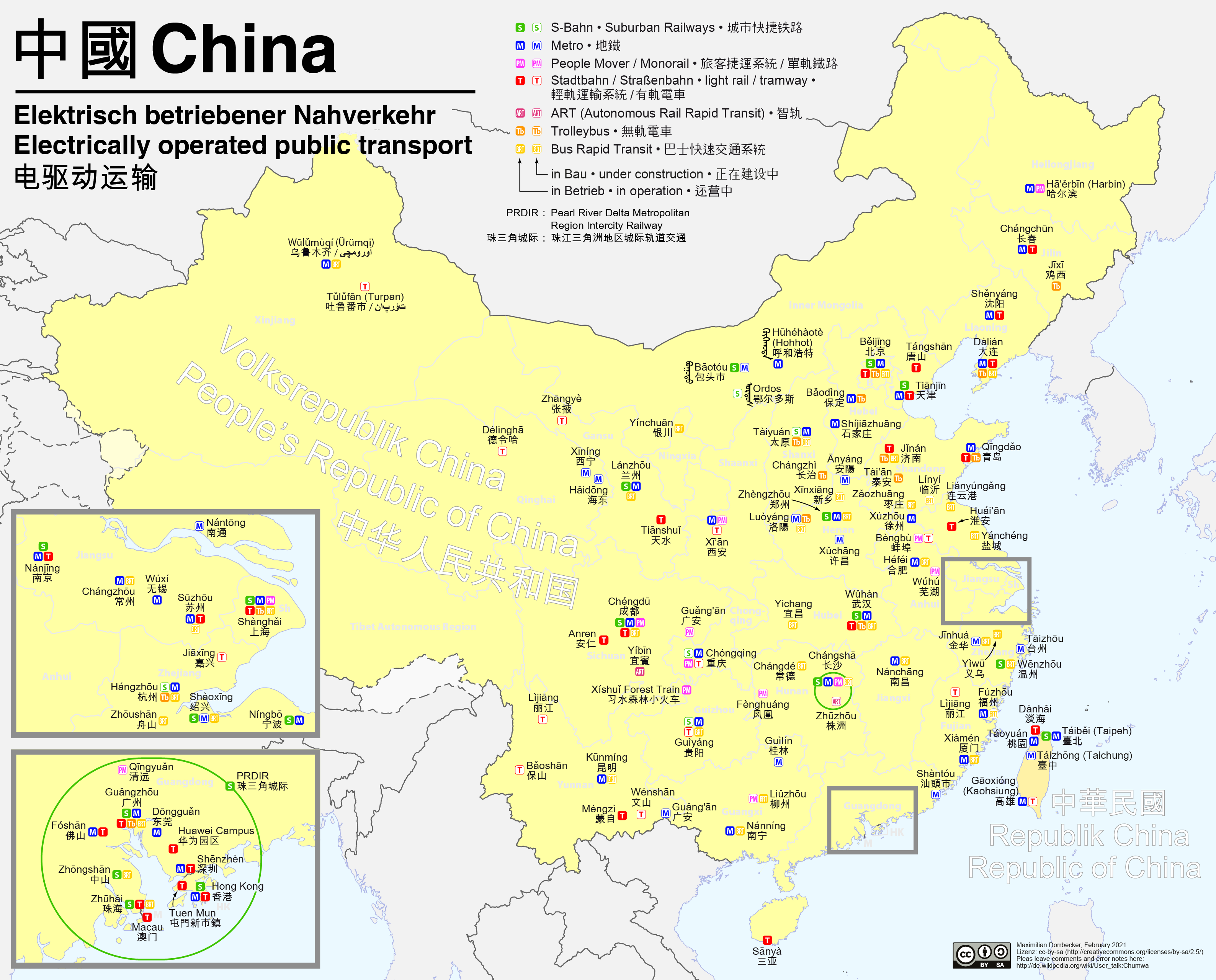 Map of fixed-route public transport systems (Rapid Transit and Light Rail Transit systems, tram, trolleybus) in China